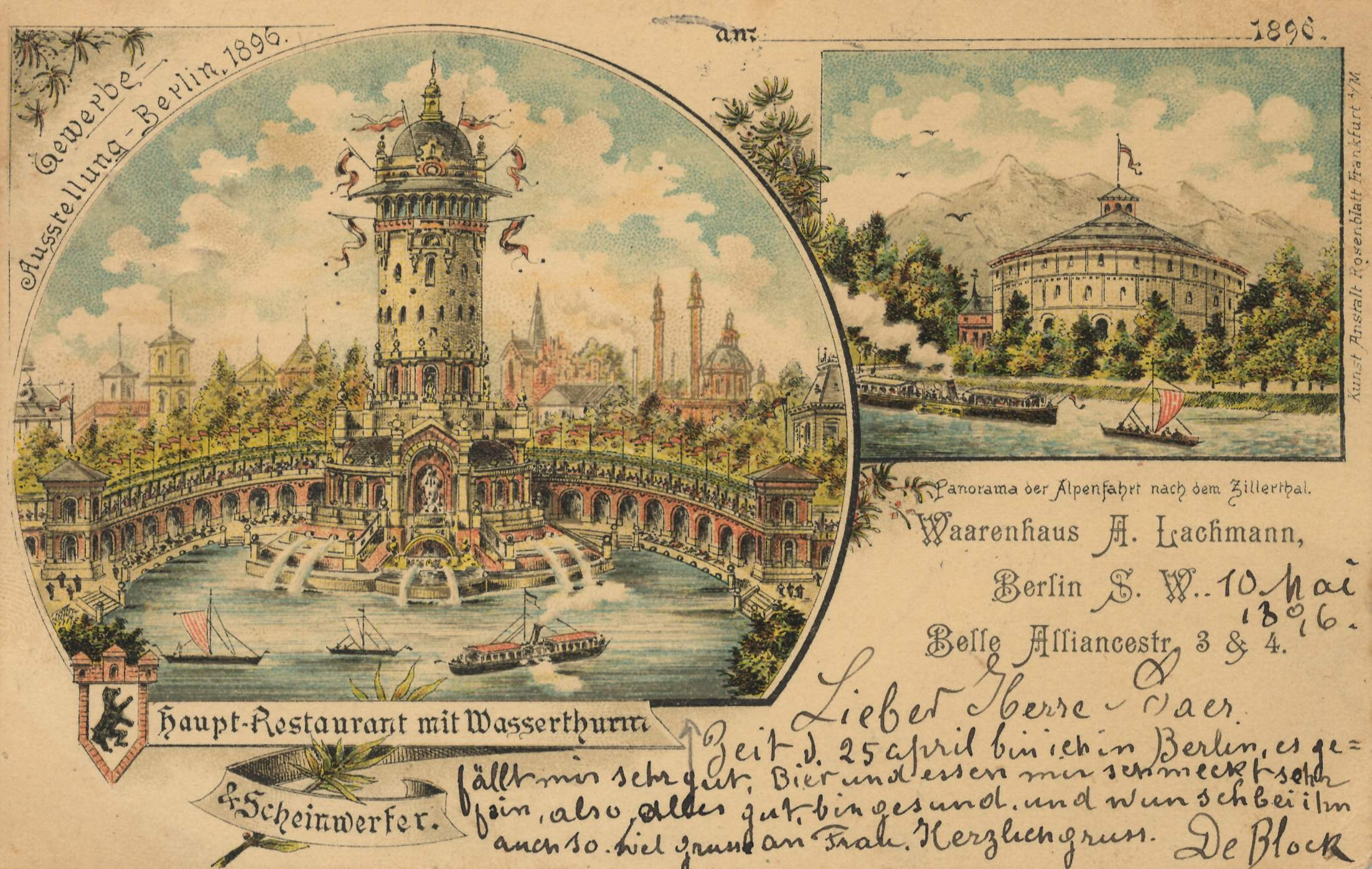 old picture postcard of Berlin industrial exhibition 1896 in Treptower Park - view of main restaurant with water tower as well as the Alpenfahrt (alps ride)